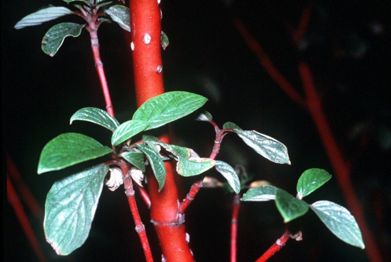 twig and leaf of Cornus sericea ssp. sericea